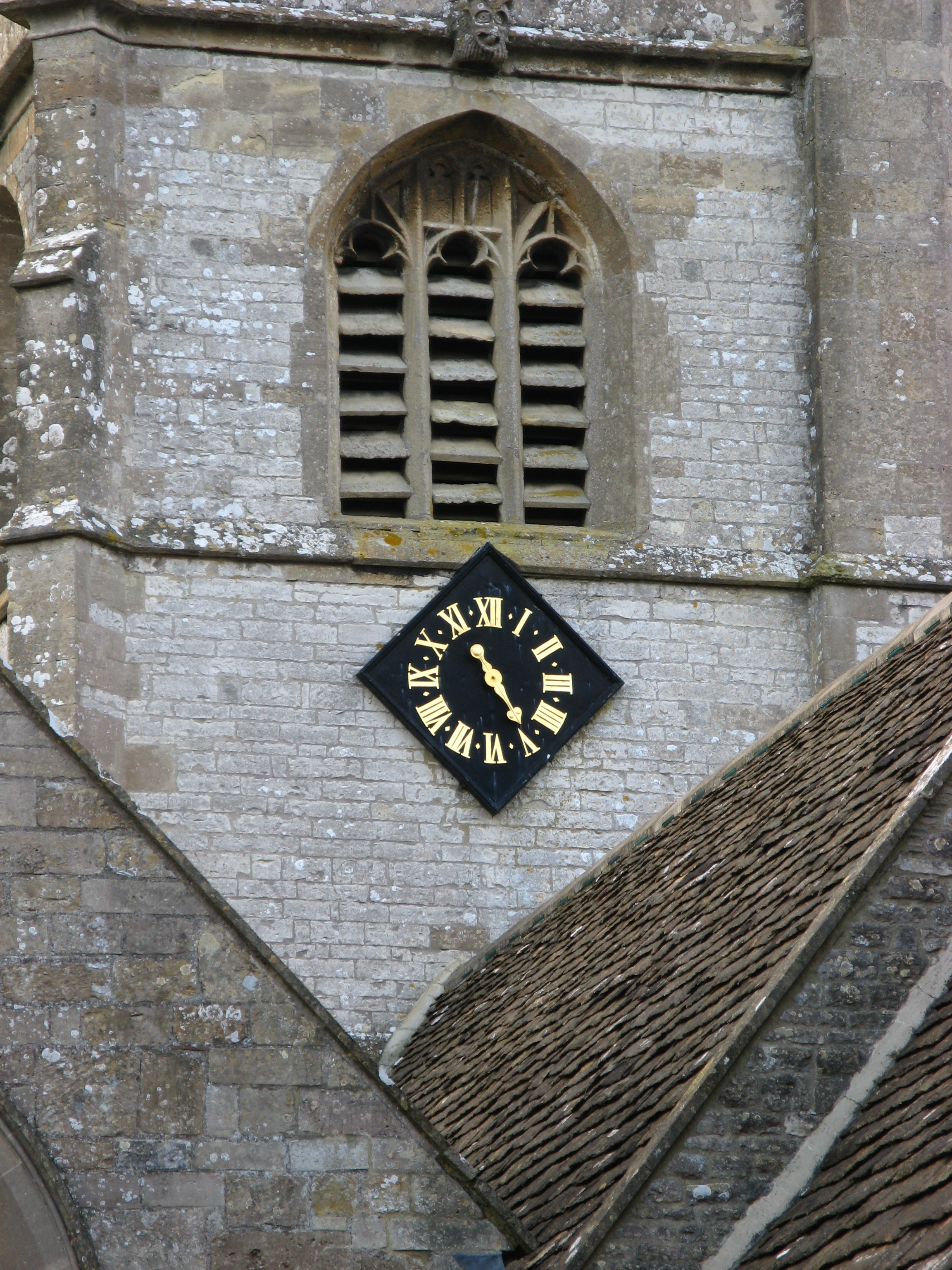 The one handed clock of Holy Trinity Church, Newton St Loe, near Bath.